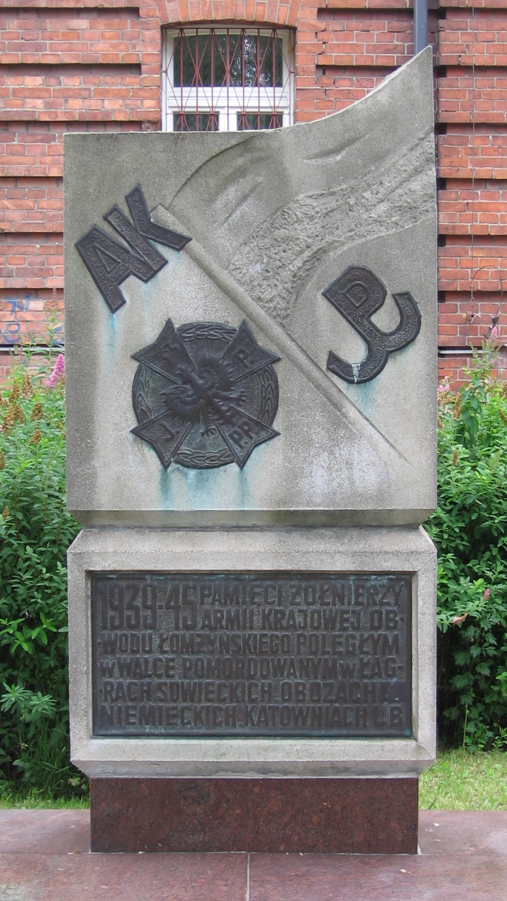 In memory of Home Army Soldiers of Łomża District monument in Łomża Annotation on the monument: 1939-45. In memory of Home Army Soldiers of Łomża District died in fight, murdered in Soviet gulags, German camps, torture chambers of UB.